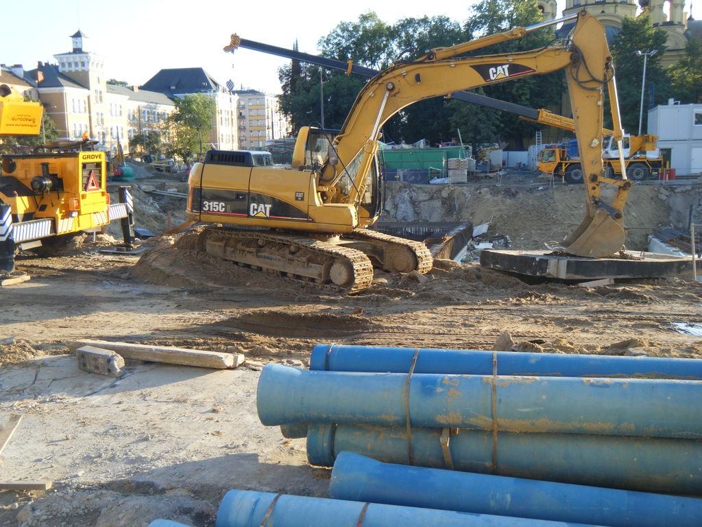 Dworzec Wileński metro station (under construction) in Warsaw.